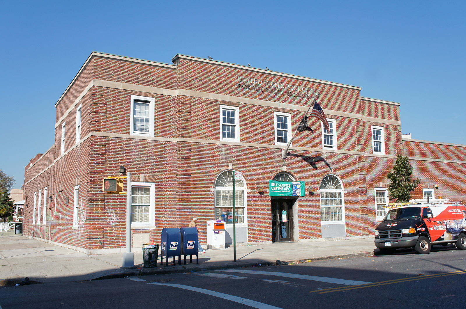 United States Post Office, in the Bensonhurst neighborhood of Brooklyn, New York.